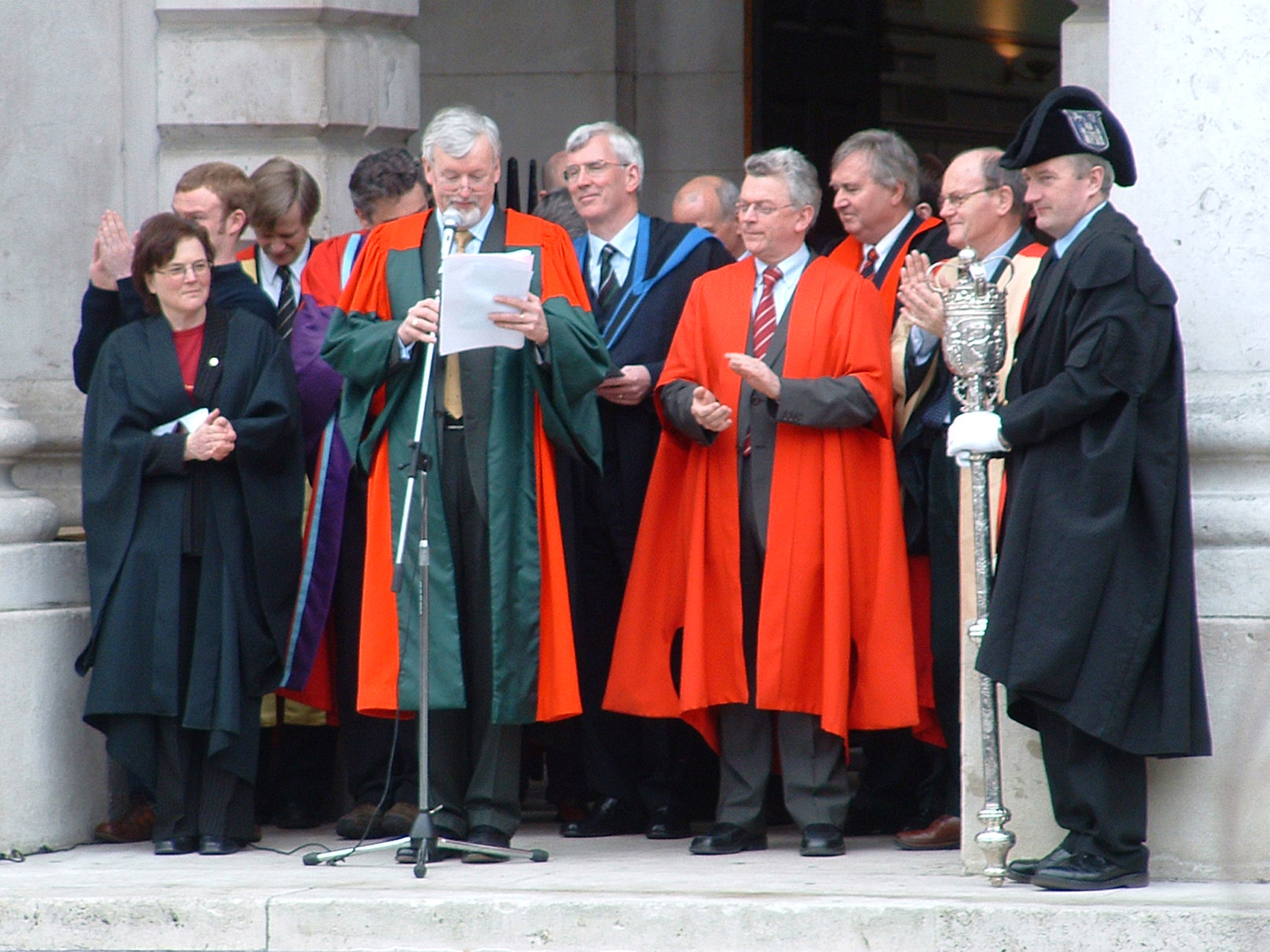 The board of Trinity College Dublin announcing new scholars and fellows in May 2005.